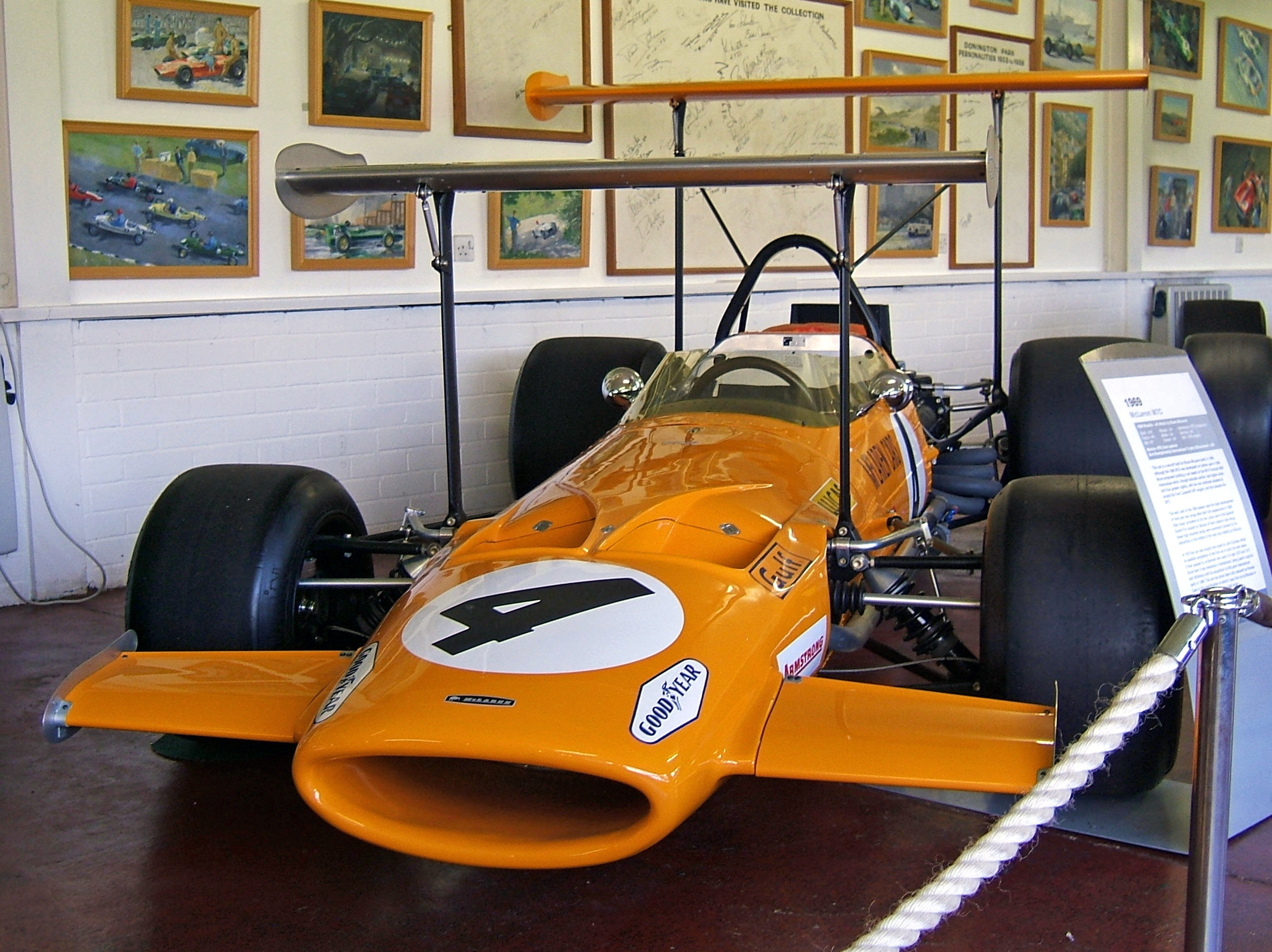 The unique McLaren M7C of 1969, sporting the high wings later banned during the 1969 F1 season. In the Donington Grand Prix Collection, Leics., UK.